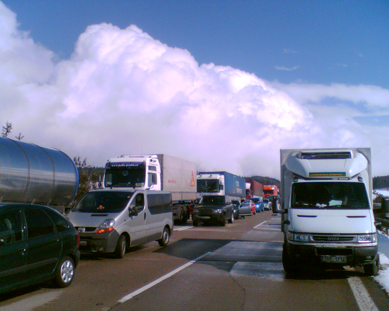 Traffic congestion caused by mass car crash on the Highway D1 (Czech Republic), 2008 March 20-th